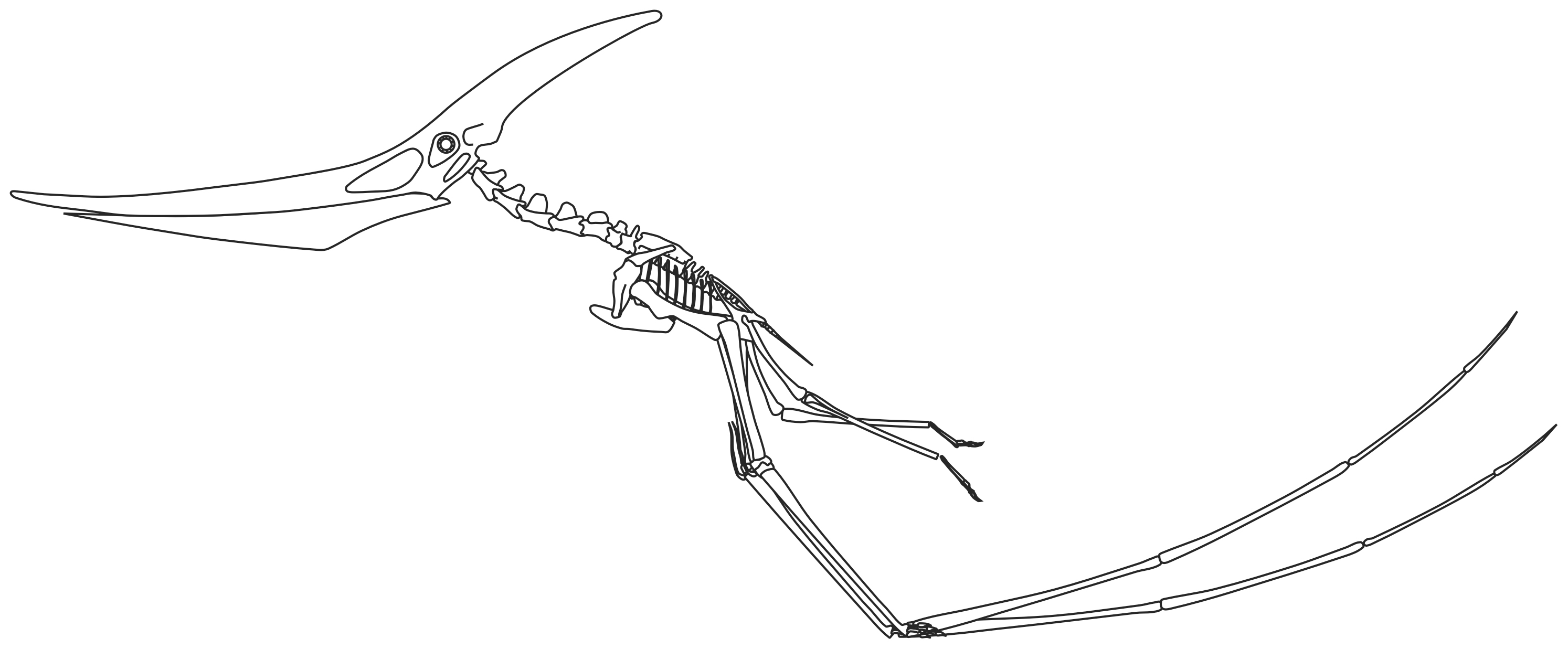 Skeletal reconstruction of a quadrupedally launching Pteranodon. Skeletal proportions based on Bennett [12]; kinematics from Habib [40].